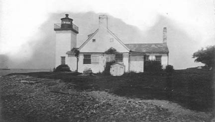 This is my copy of a late 1800s photograph of Nayatt Point Lighthouse in Barrington, Rhode Island when it was still functional.